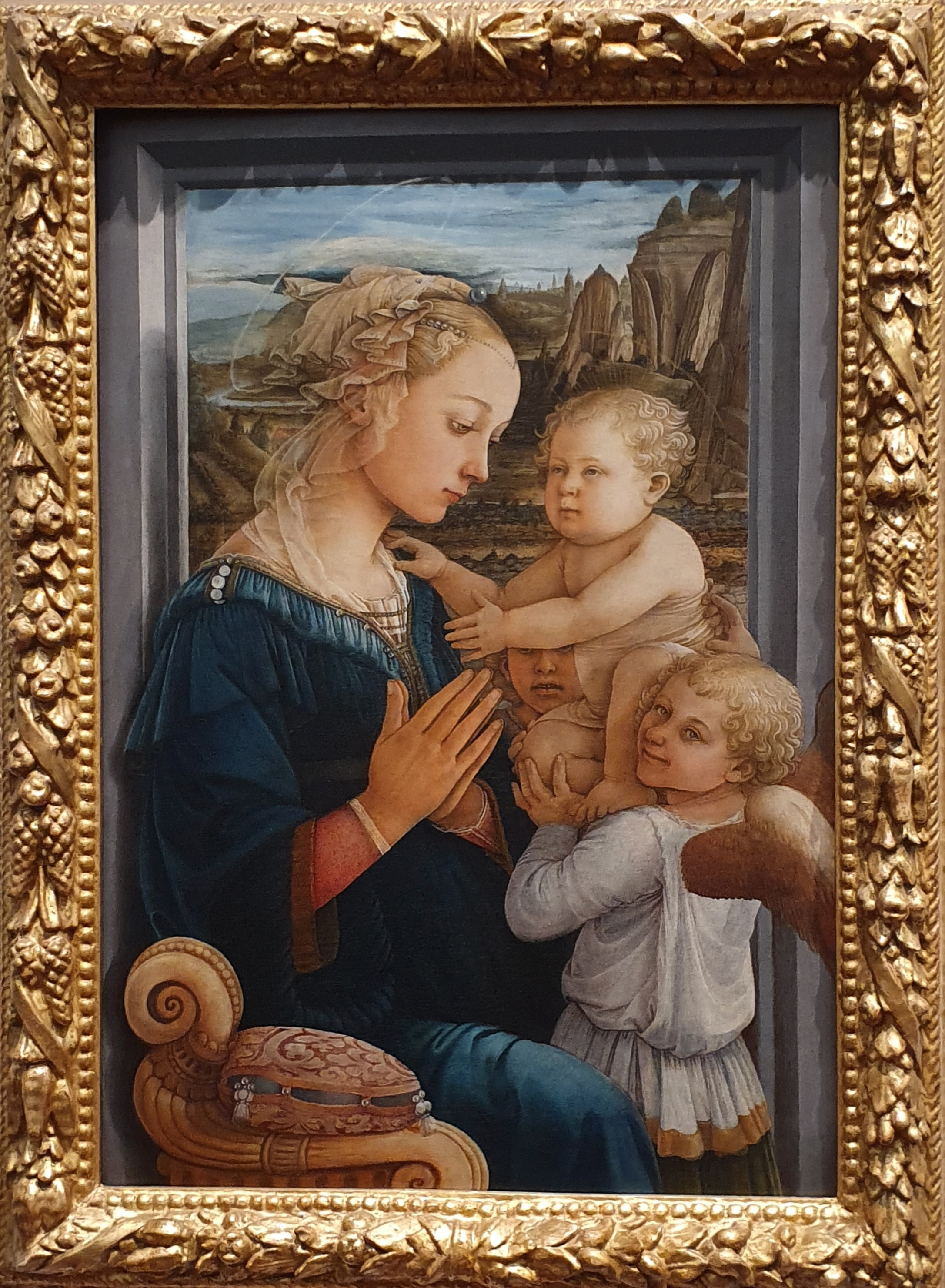 The Lippina (Madonna with child and two Angels) by Filippo Lippi